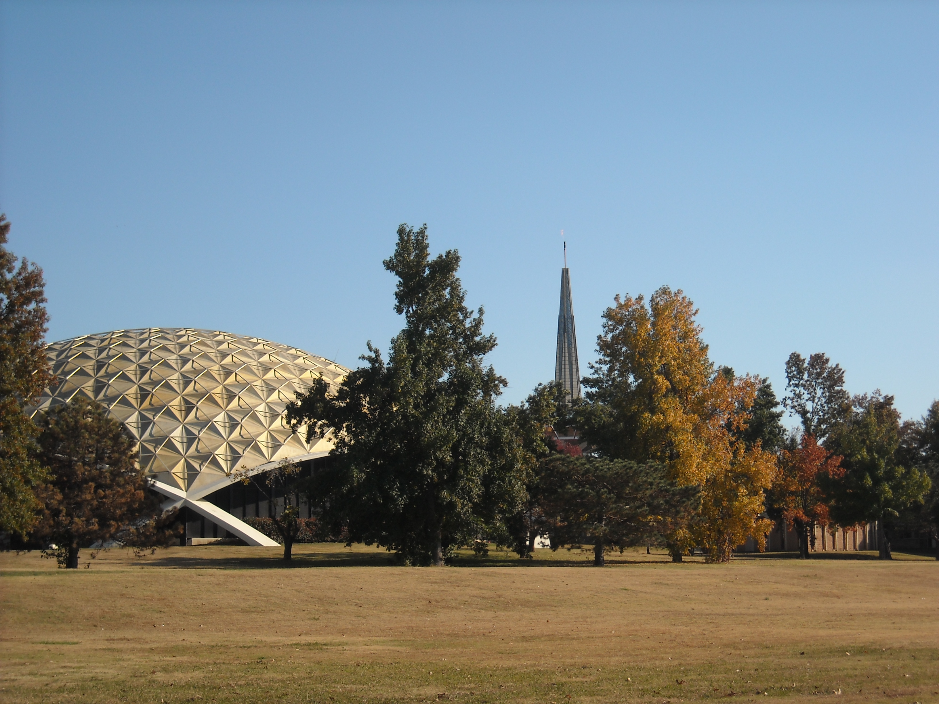 Howard Auditorium and the Prayer Tower at Oral Roberts University looking southeast.